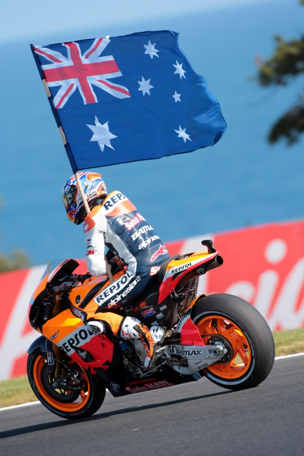 Casey Stoner, sitting on his Repsol Honda, waving the Australian flag to celebrate his last victory with the Repsol Honda team after winning the 2012 Australian Grand Prix.